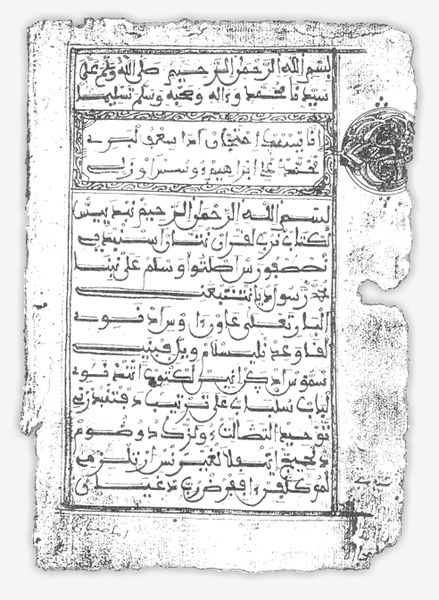 Photocopy of the first page of a manuscript of Muhammad Awzal. Adapted from N van den Boogert (1997) Berber Literary Tradition of the Sous, Plate 1.